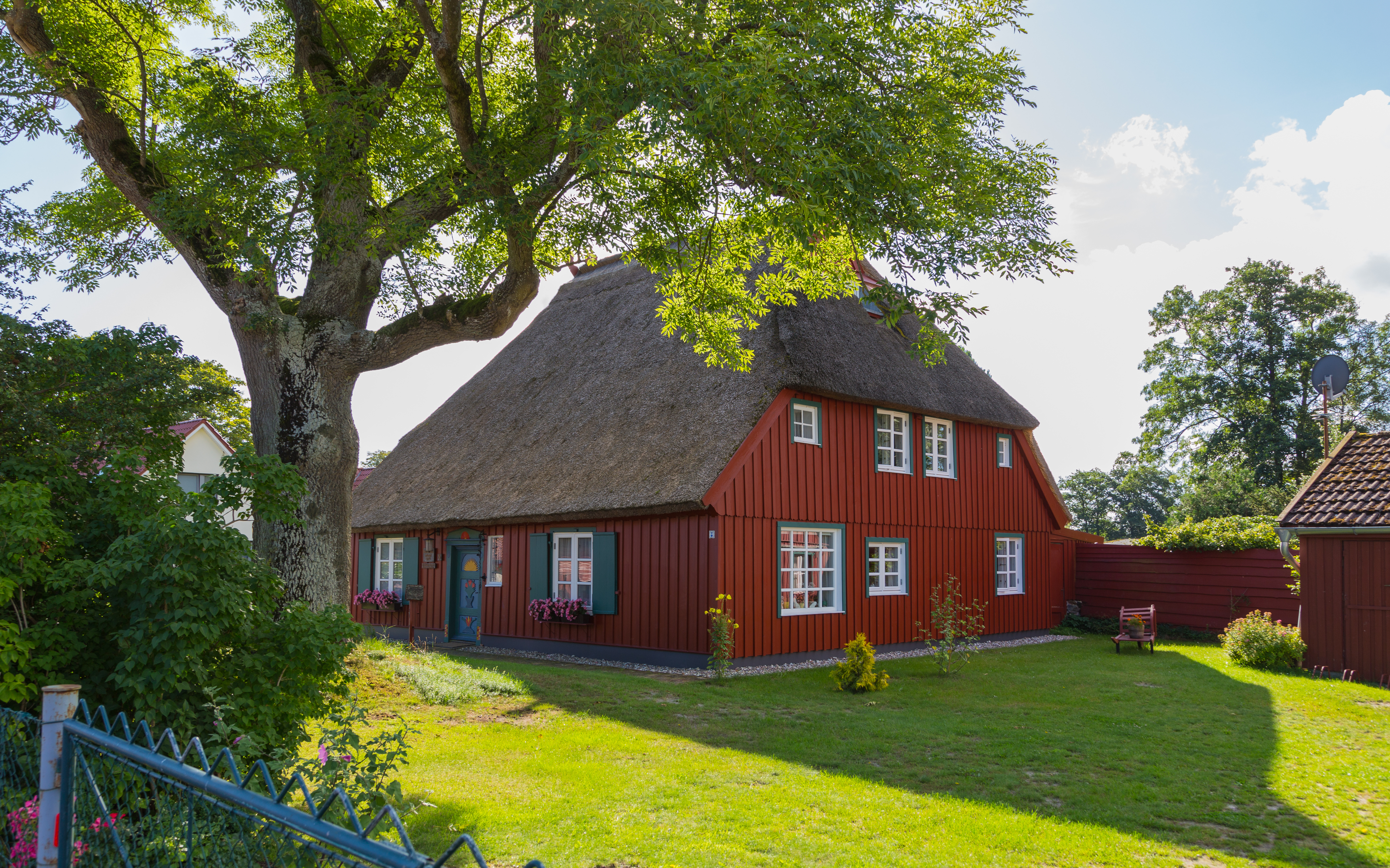 Ash Tree House (Eschenhaus), 8 Green Street (Grüne Straße 8) in Prerow, Landkreis Vorpommern-Rügen, Mecklenburg-Vorpommern, Germany. This was the home of Darß painter Theodor Schultze-Jasmer. The eponymous ash tree can bee seen on the left hand side of the picture. The ash is a listed natural monument.